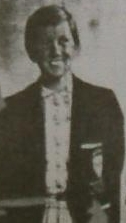 Lorraine Crapp. From a picture of young Australian sports stars profiled. It was published in the "Simmo" book of Bob Simpson, printed in an Australian magazine in 1953